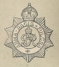 Cap badge as worn at the outbreak of World War II